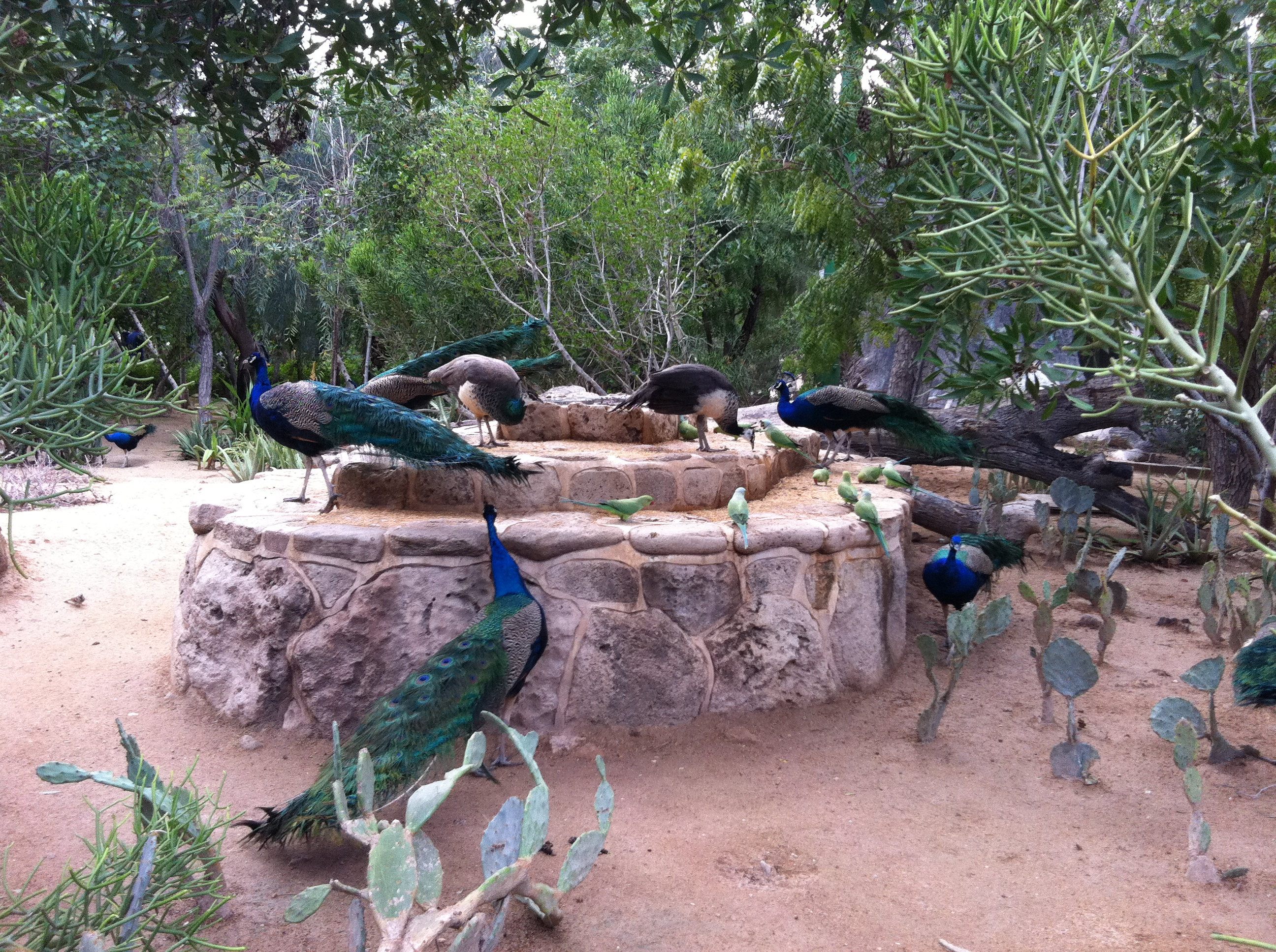 Bird Garden in the Kish Island, Persian Gulf region. January 2014. Photo by Ramin Hosseinzadeh / PDN